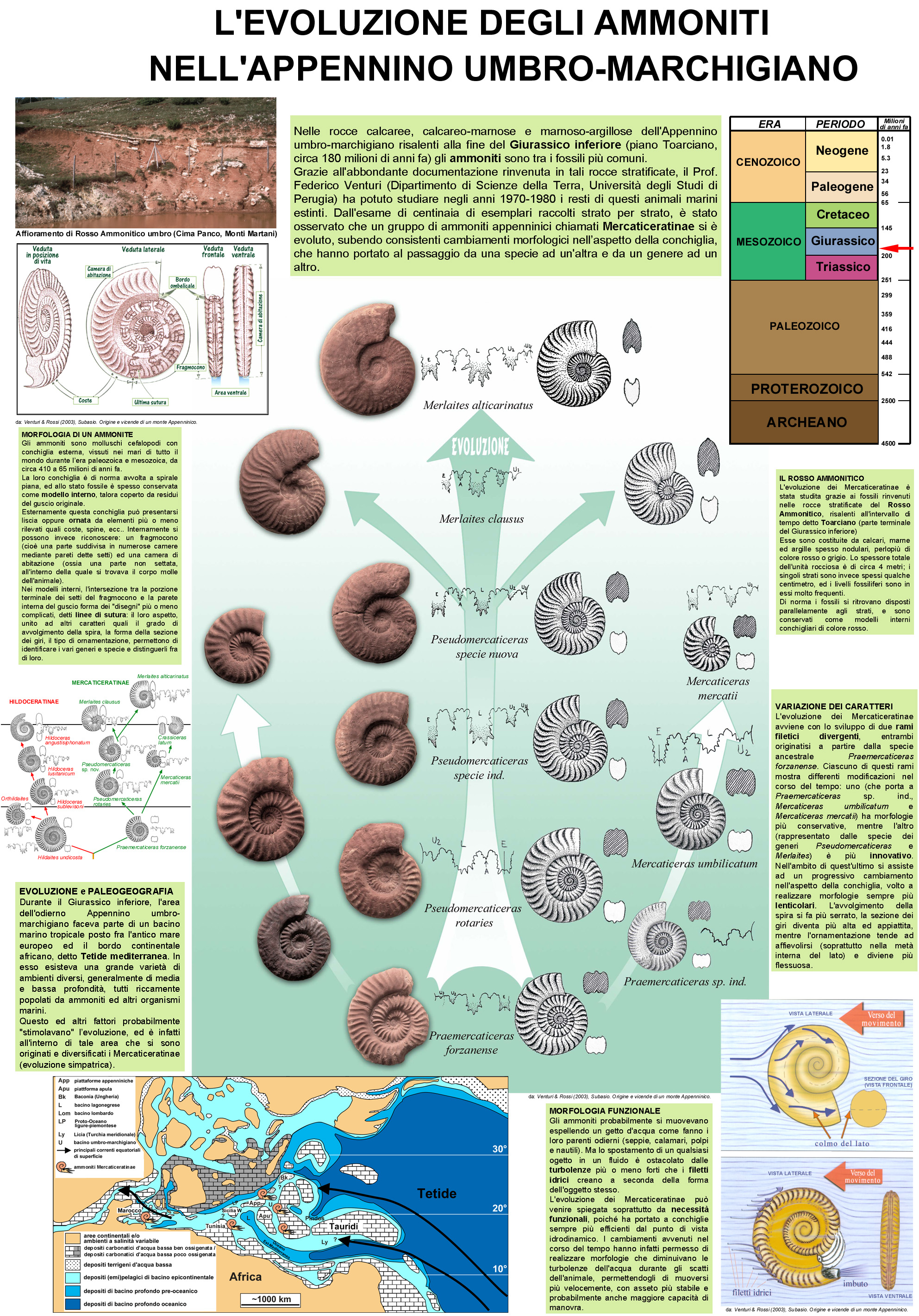 Evolution of Mercaticeratinae in central appennine